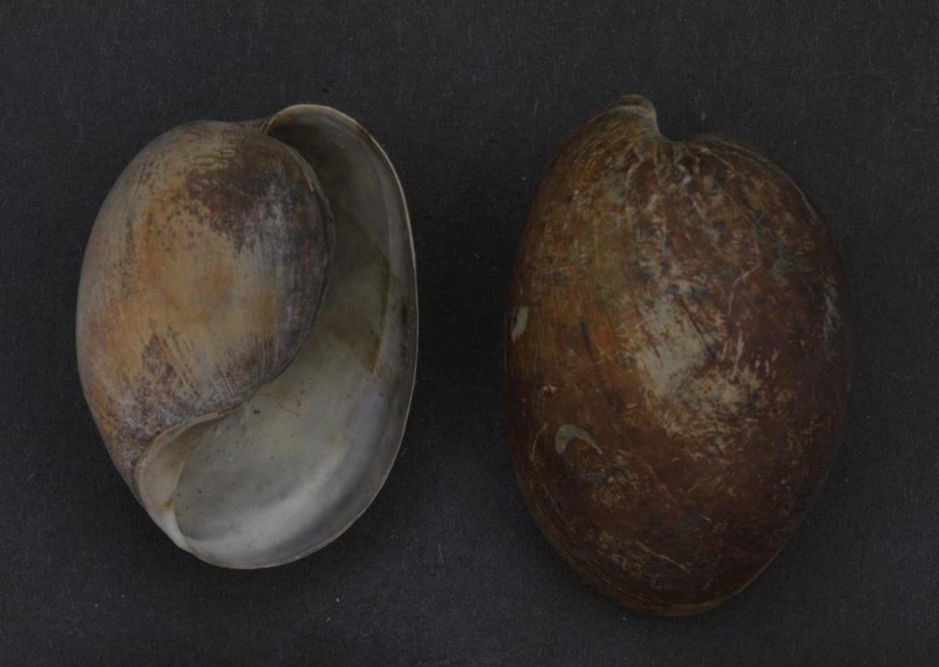 Cropped image of taxon in file name